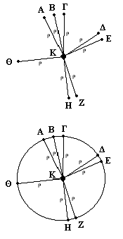 Circle and radii